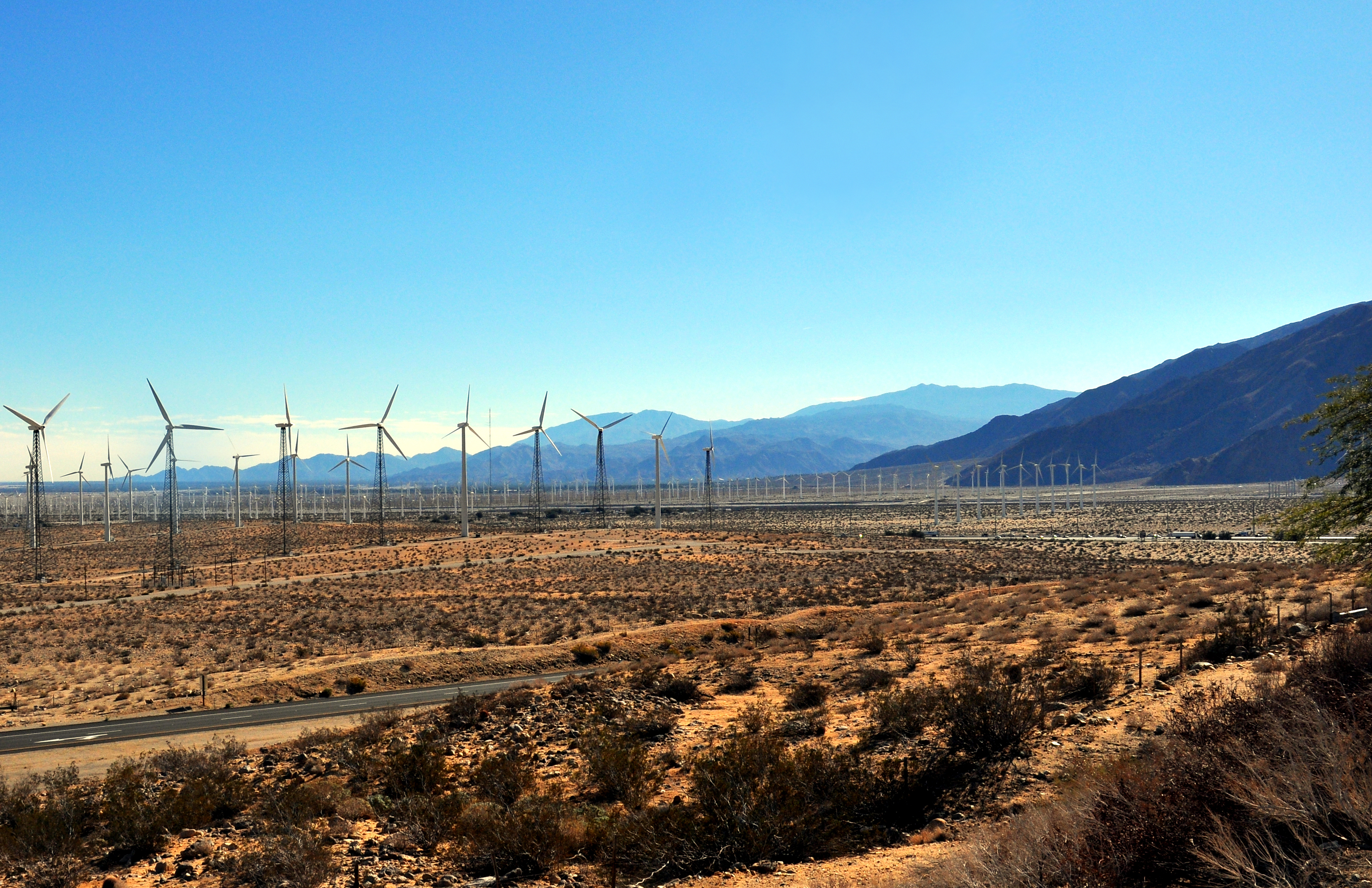 The Sonoran Desert Gateway to Palm Springs, California, as observed from above highway 62 in the Morongo Basin.